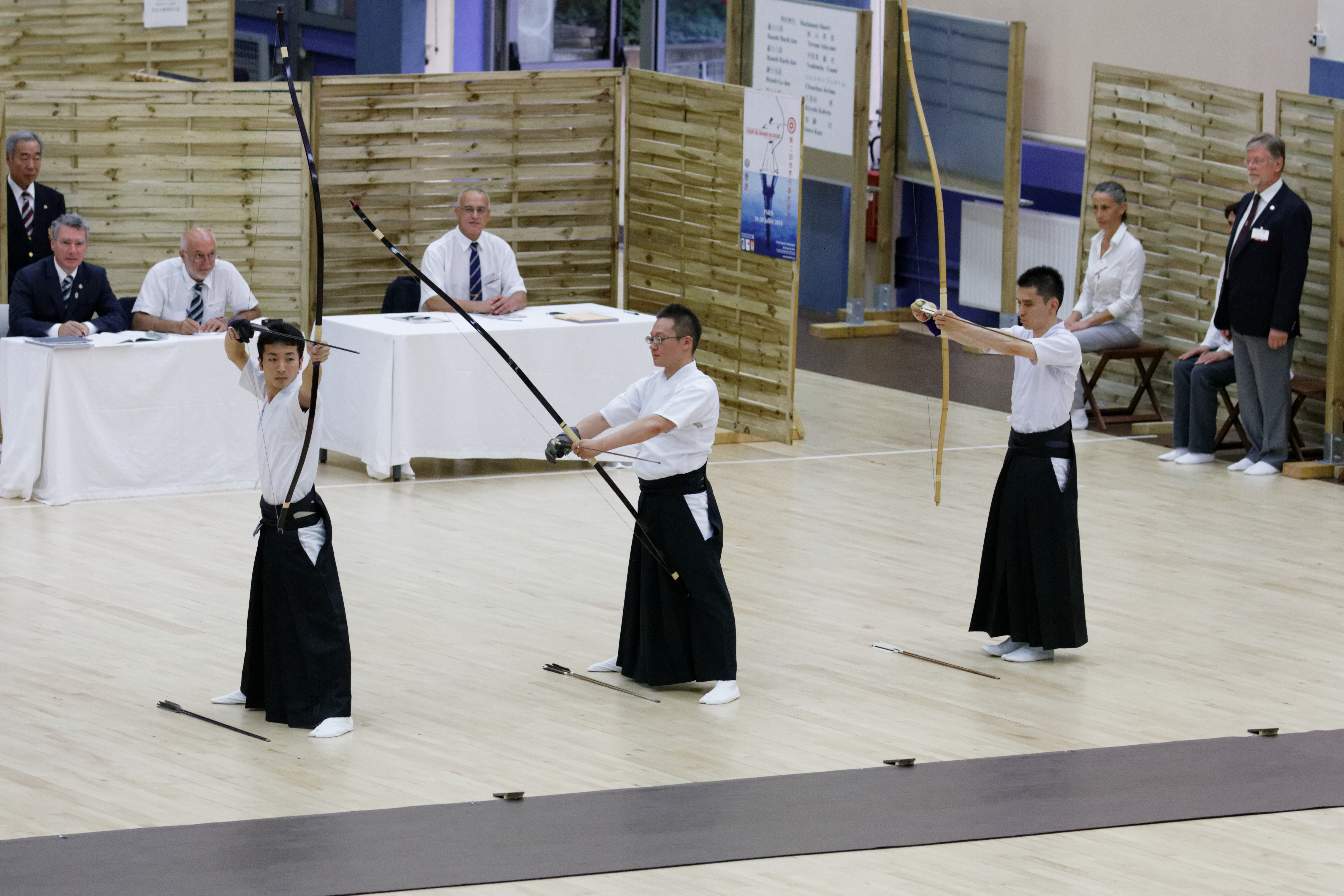 Second 2014 Kyudo World Cup, Paris. Team Competition.